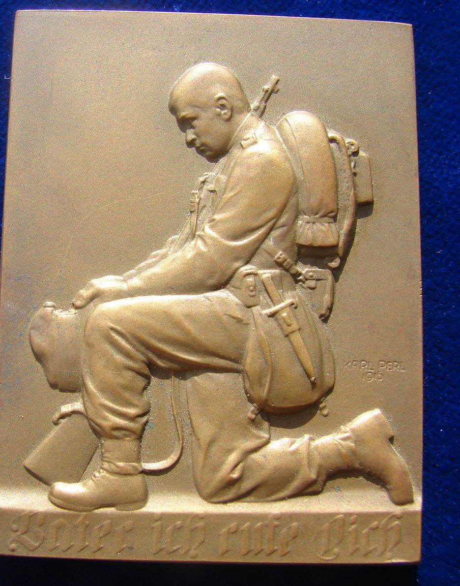 Austria, WW1, Anti War Plaque Medal 1915. Uniface bronze plaque - medallion 50 x 65 mm. WWI. L. kneeling Soldier in battle uniform praying. Below 1 line: "Vater ich rufe Dich". ( ."Father, I beseech thee"). Medallist : Karl Perl, Sculptor, Liezen 1876 - 1965 Vienna, Austria. Condition: UNCIRCULATED